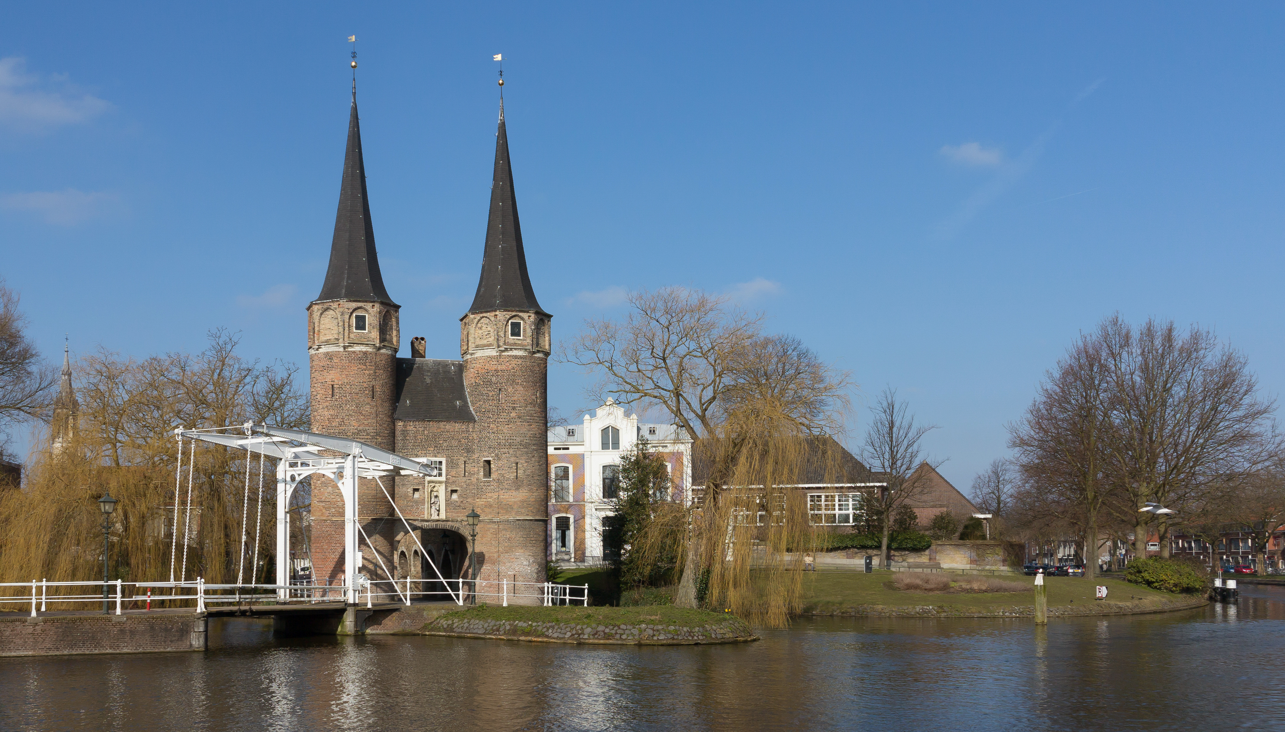 Delft, town gate: de Oostpoort